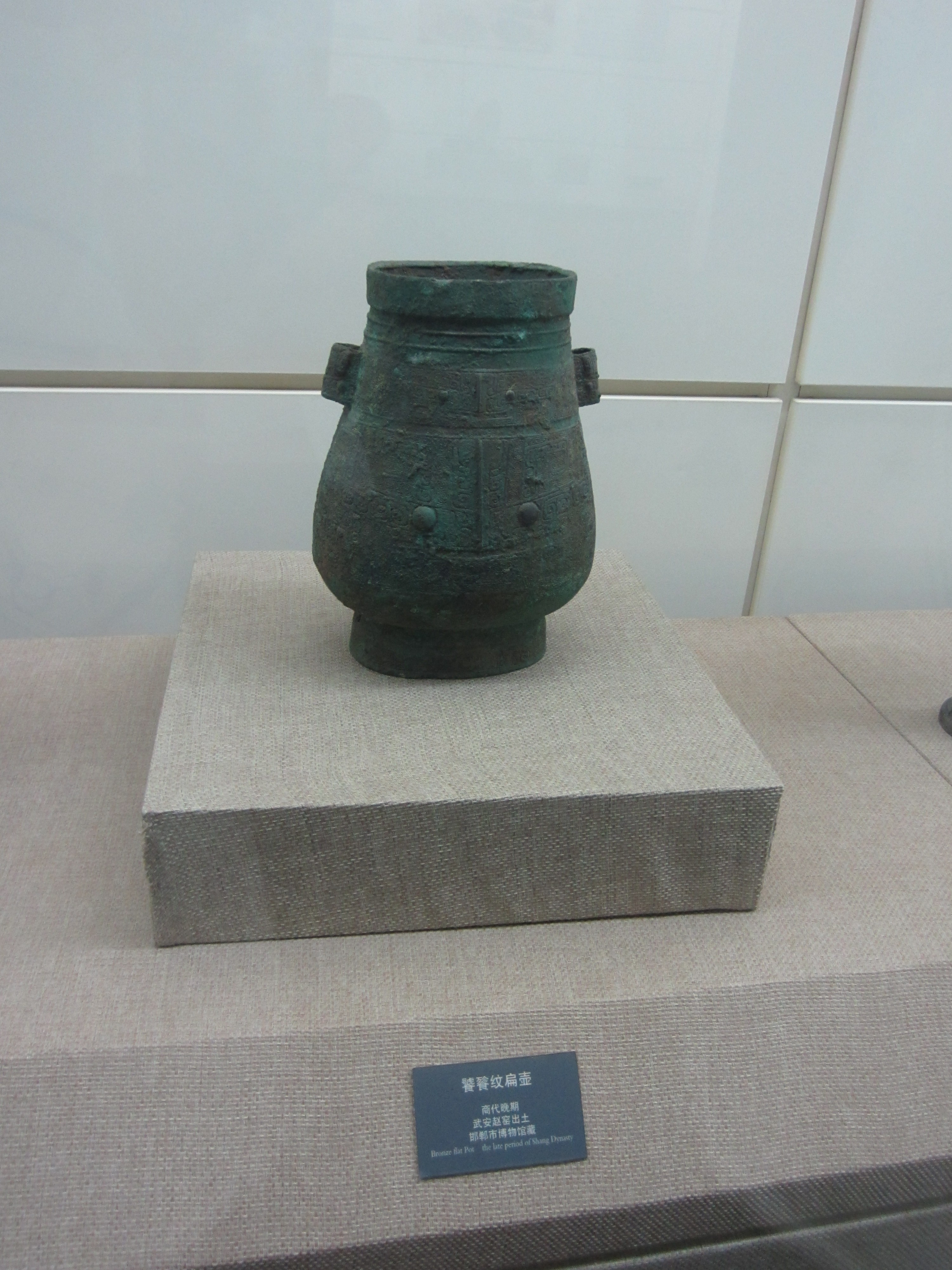 Handan unearthed Shang Dynasty bronze .